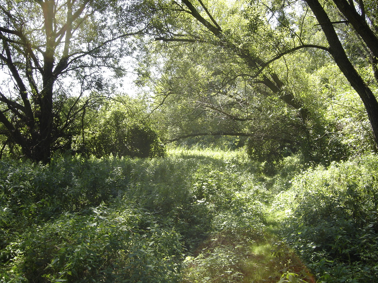 Šúrska rezervácia